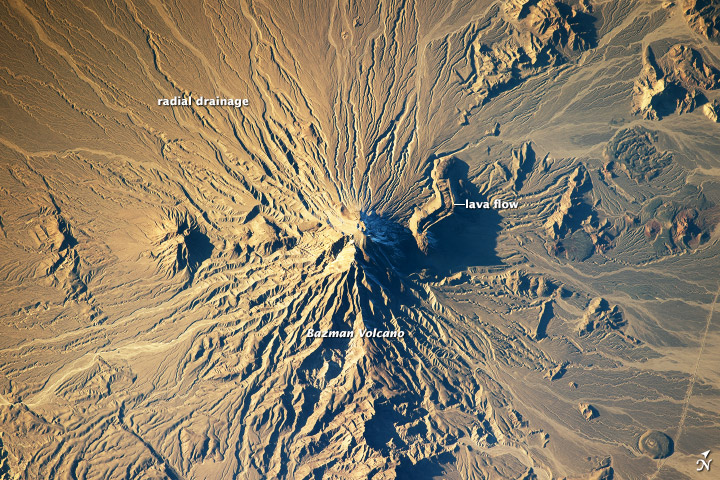 Bazman volcano is located in a remote region of southern Iran, within the Bazman Protected Area of Sistan and Baluchestan Provinces. While the volcano has the classic cone shape of a stratovolcano, it is also heavily dissected by channels that extend downwards from summit. This radial drainage pattern—similar to the spokes of a bicycle wheel—is readily observed from the International Space Station. Such patterns can form around high, symmetric peaks when water runoff and erosion is not constrained by barriers to flow or resistance by geologic materials. The result is essentially even distribution of water runoff channels around the peak. While there is no historical or geologic record of volcanism at Bazman, some fumarolic activity (gas and steam emissions) have been reported, according to the Smithsonian Institution National Museum of Natural History’s Global Volcanism Program. The summit of the volcano (3,490 meters above sea level) is marked by a well-formed explosion crater. Lava cones on the flanks of the main volcano are associated with well-preserved lava flows; a particularly striking example is visible on the north flank of Bazman. Together, these observations and features suggest that Bazman may be dormant, rather than extinct.